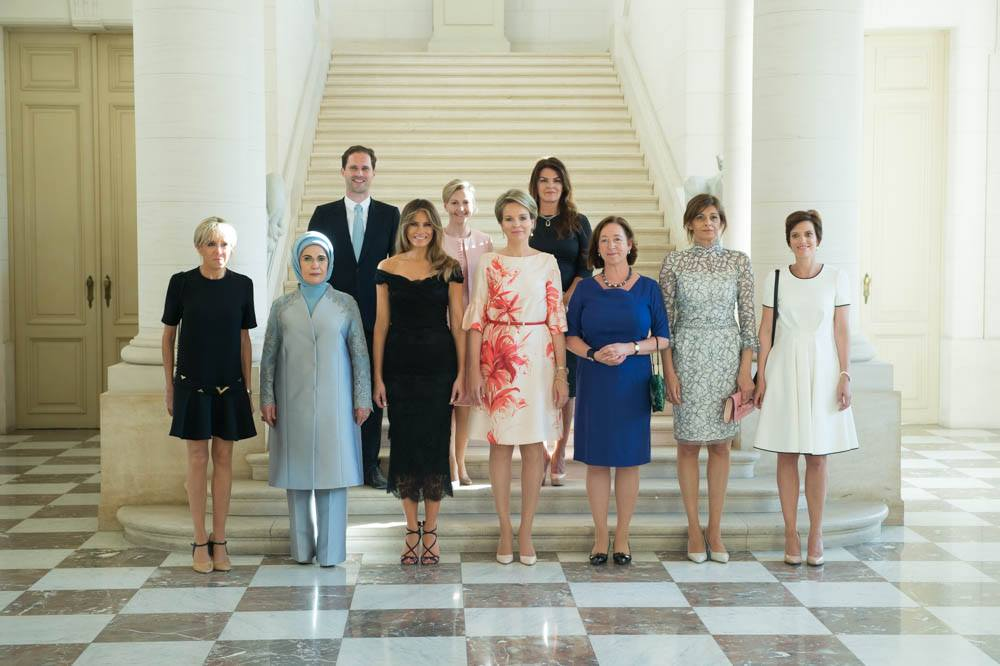 Queen Mathilde of Belgium meeting with the First Ladies and First Gentlemen of NATO members at the Royal Castle of Laeken on Thursday, May 25, 2017. Front row (Left to right): First Lady of France Brigitte Macron, First Lady of Turkey Emine Erdoğan, First Lady of the United States Melania Trump, Mathilde, Queen of the Belgians (center), Ambassador of Norway to Belgium and wife of NATO Secretary General Ingrid Schulerud, First Lady of Bulgaria Desislava Radeva, and Amélie Derbaudrenghien of Belgium. Second Row (left to right): Luxembourg First Gentleman Gauthier Destenay, Mojca Stropnik of Slovenia (center), and Thora Margret Baldvinsdottir of Iceland.